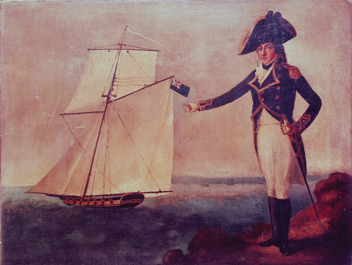 Painting of Commander John Crispo (1773-1841) in the uniform of a Commander of the Royal Navy, pointing to his vessel, His Majesty's hired armed cutter Telemachus